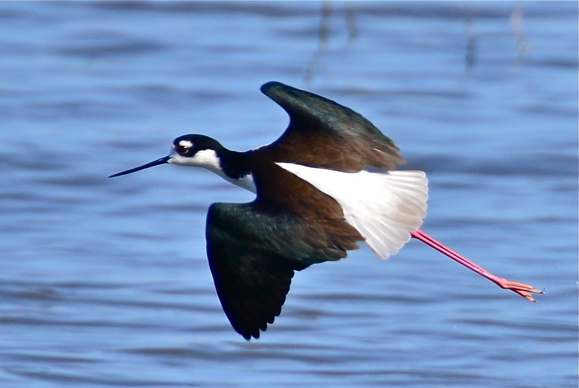 A Black-necked Stilt flying in Morro Bay, California, USA.